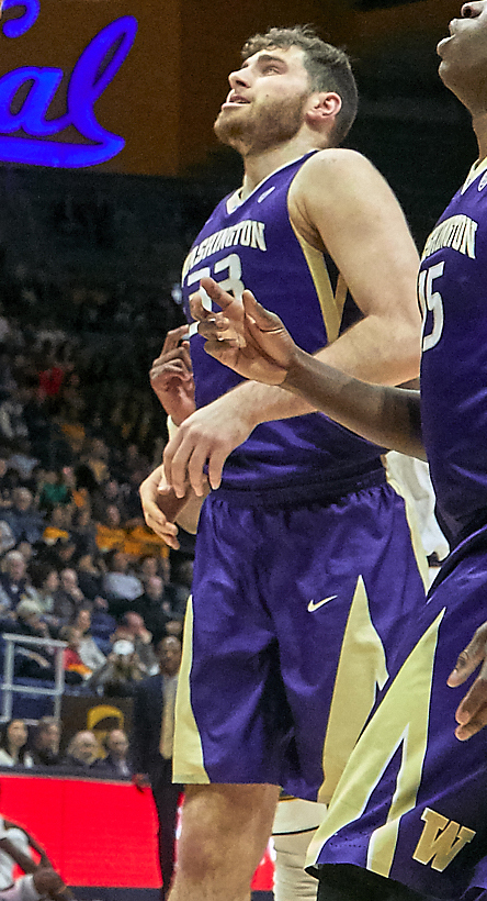 University of California Golden Bears versus Washington University Huskies, PAC12 Mens Basketball, Haas Pavilion, Berkeley, CA